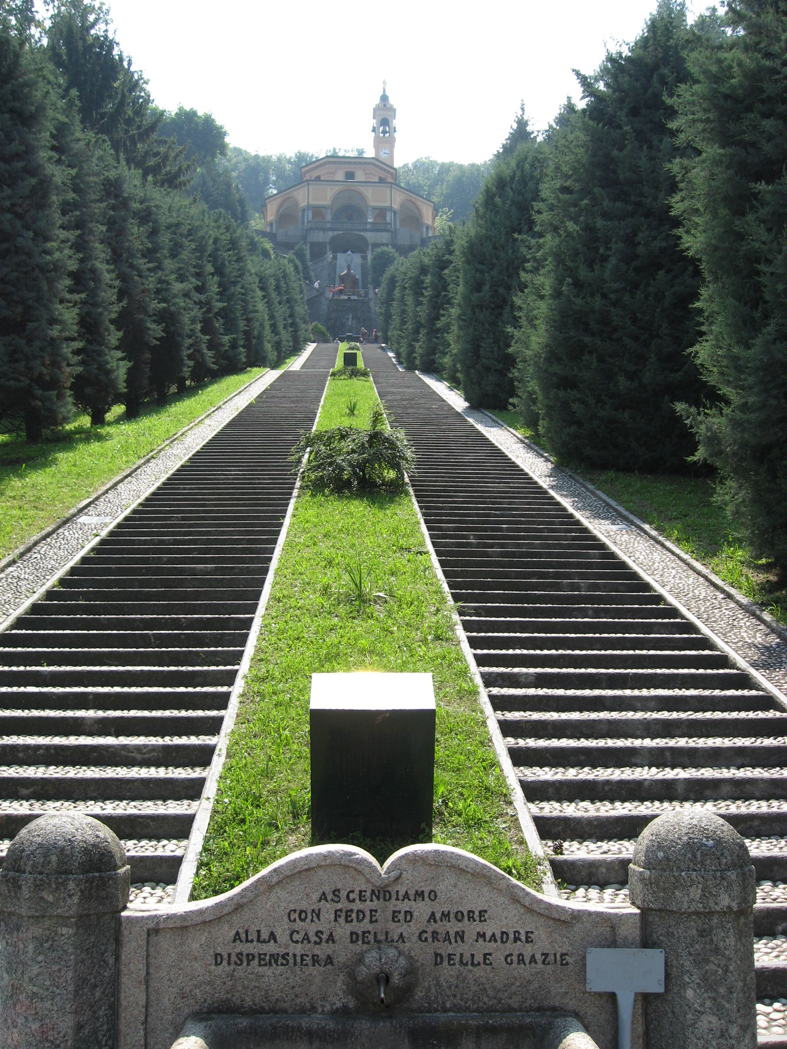 Holy staircase. Santuario della Madonna del bosco in Imbersago, Italy